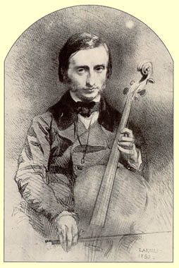 A drawing of Jacques Offenbach (1819–1880) as a young cello virtuoso in the 1840s.